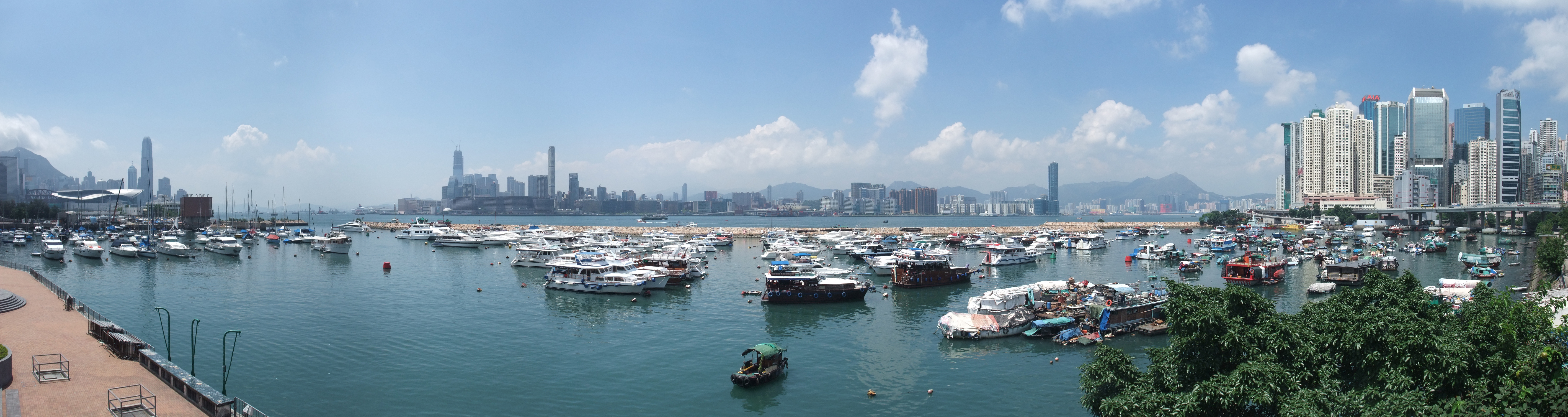 Panoramic photo of Causeway Bay Typhoon Shelter, combined from 2762691663, 2762697559, 2762703629, 2763552268, 2763558624 and 2763565638